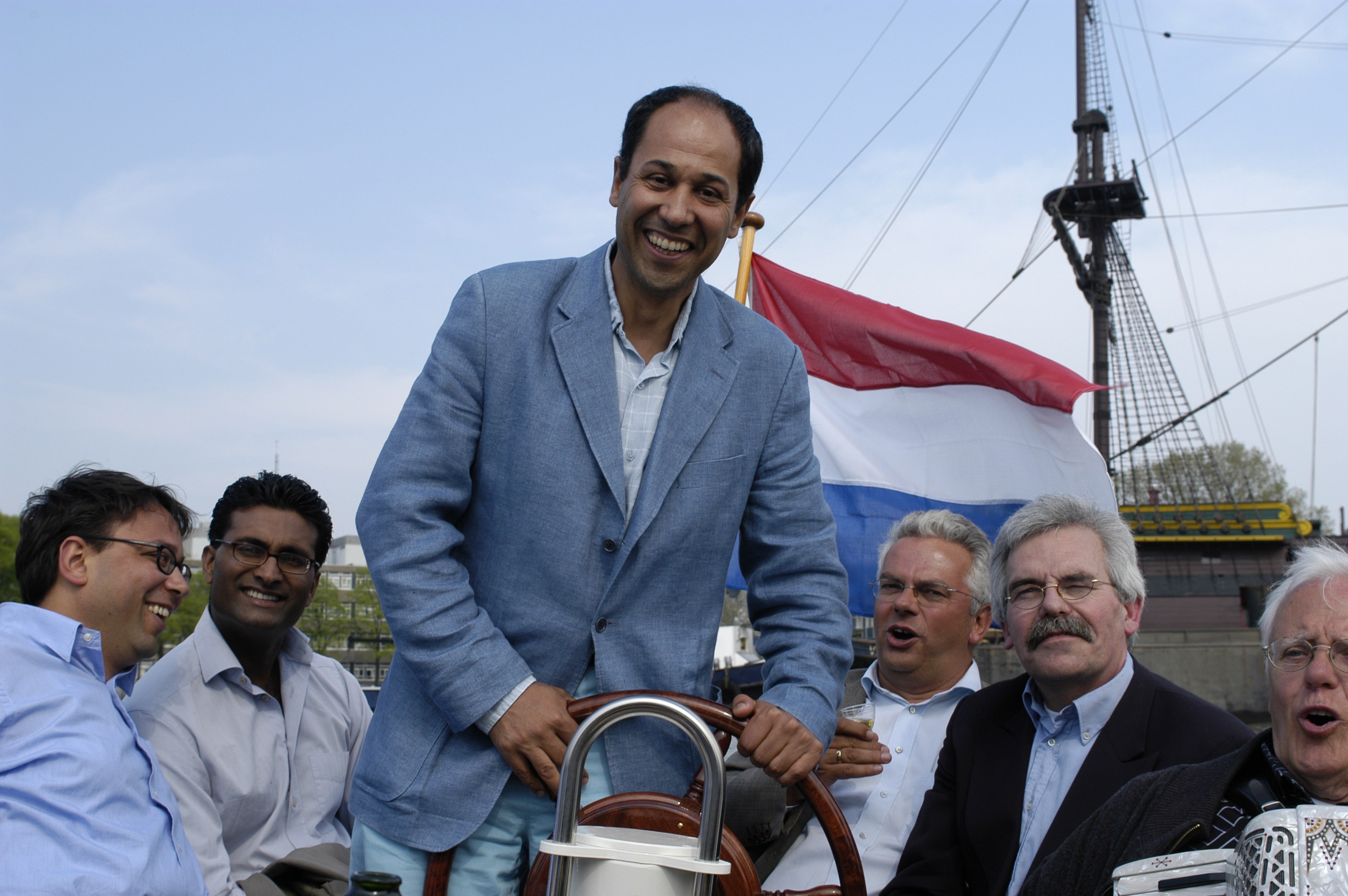 Cherribi and VVD